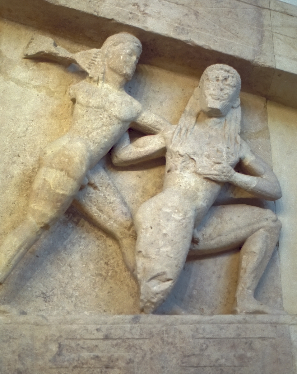 West pediment from the Temple of Artemis in Corfu, ca 580 BC. Detail of Titanomychy. Archaeological Museum of Corfu.